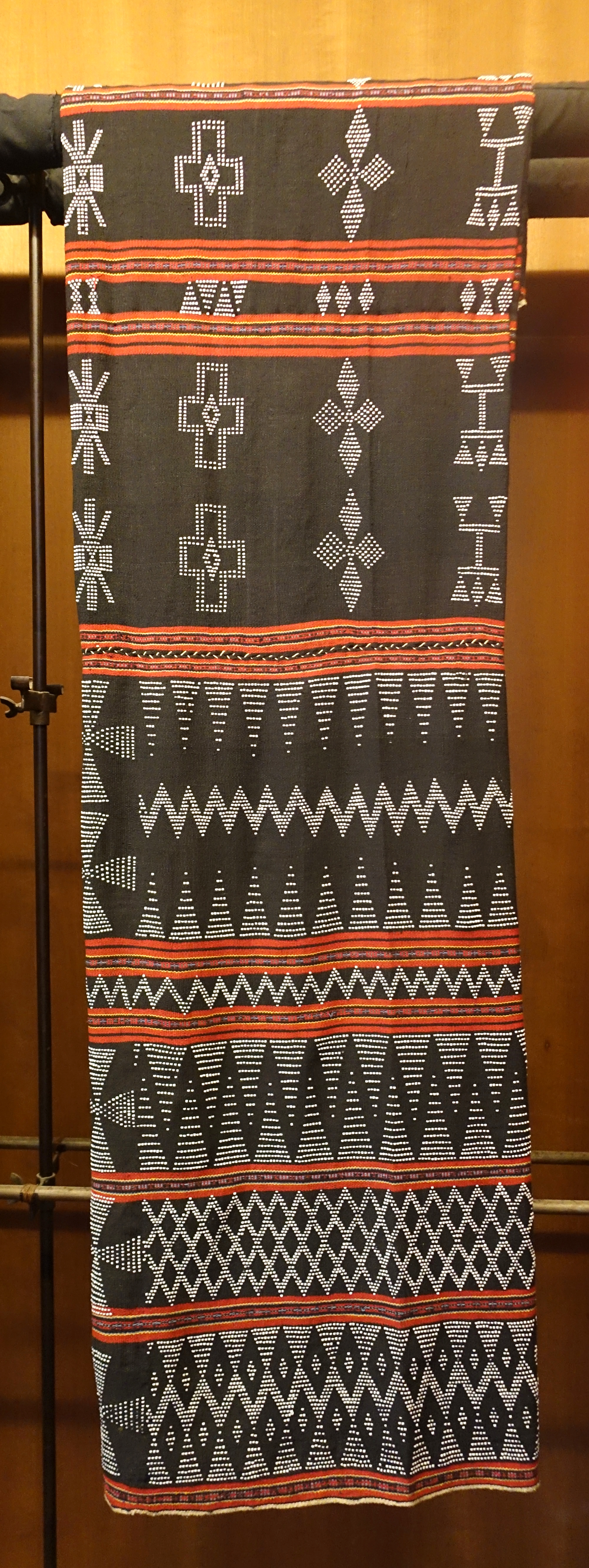 Exhibit in the Vietnam Museum of Ethnology - Hanoi, Vietnam.